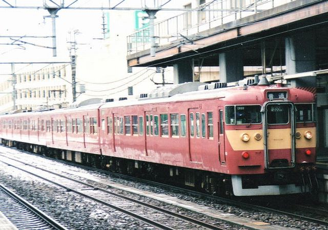 East Japan Railway Company, EMU type 415 at Tsuchiura Sta.